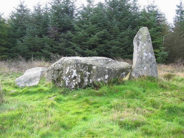 Loudon Wood Stone Circle